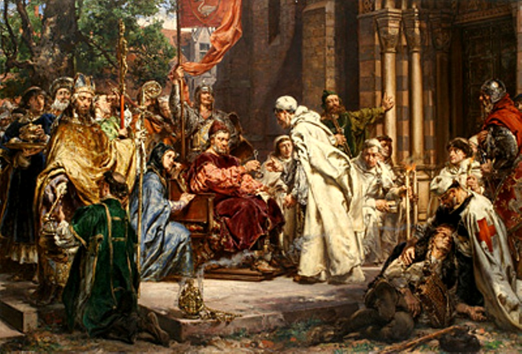 Jan Metejko: Piotr Włast Dunin invites the Cistercians to Poland